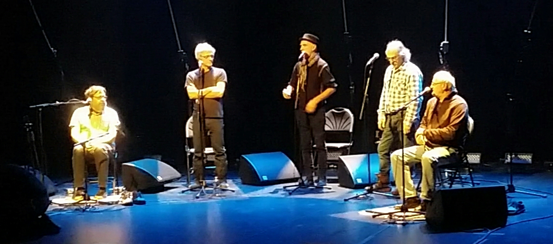 Les Charbonniers de l'enfer photographed photographed in Montréal, Québec, Canada at the Pauline-Julien Theatre.